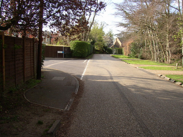 Woodham Park Way Junction of Langshott Close and Woodham Park Way looking NW